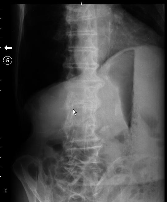 Decubitus abdominal x=ray of gastric outlet obstruction. Note the large gastric air bubble and the solid particulate matter in a dilated stomach